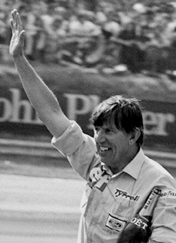 The formula 1 team owner Ken Tyrrell.